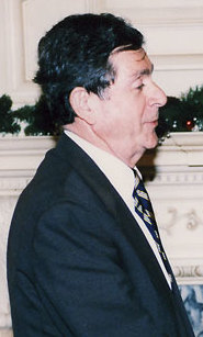 Secretary Rice meets with His Excellency Gert Rosenthal, Minister of Foreign Relations of the Republic of Guatemala.